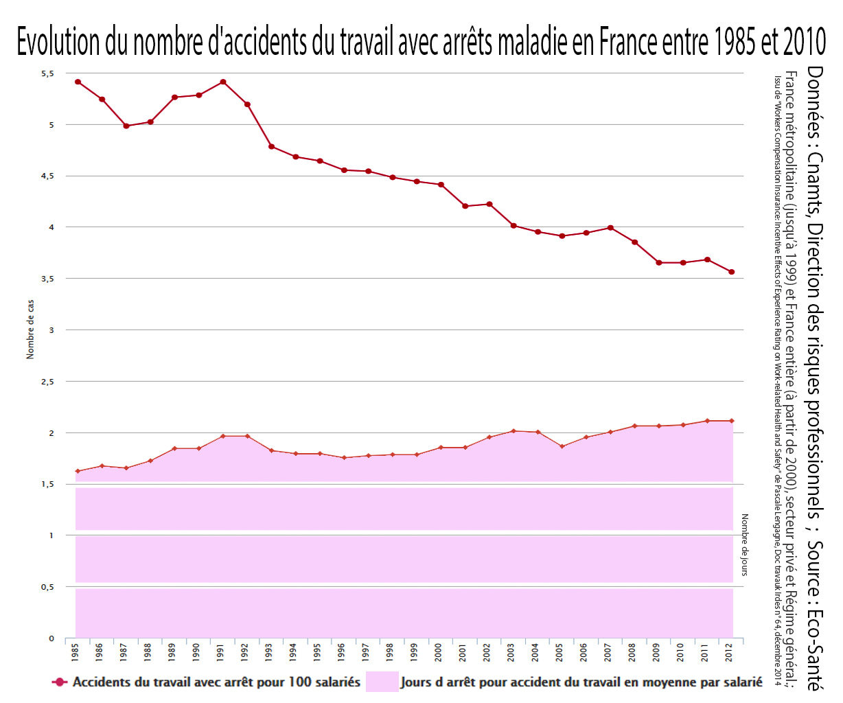 Trends and changes in the number of work accidents with sick leave (in France, between 1985 and 2012)